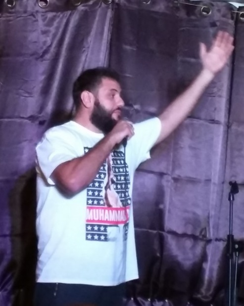 Mo Amer, performing at the 1001 Laughs Comedy Festival in Ramallah, Palestine